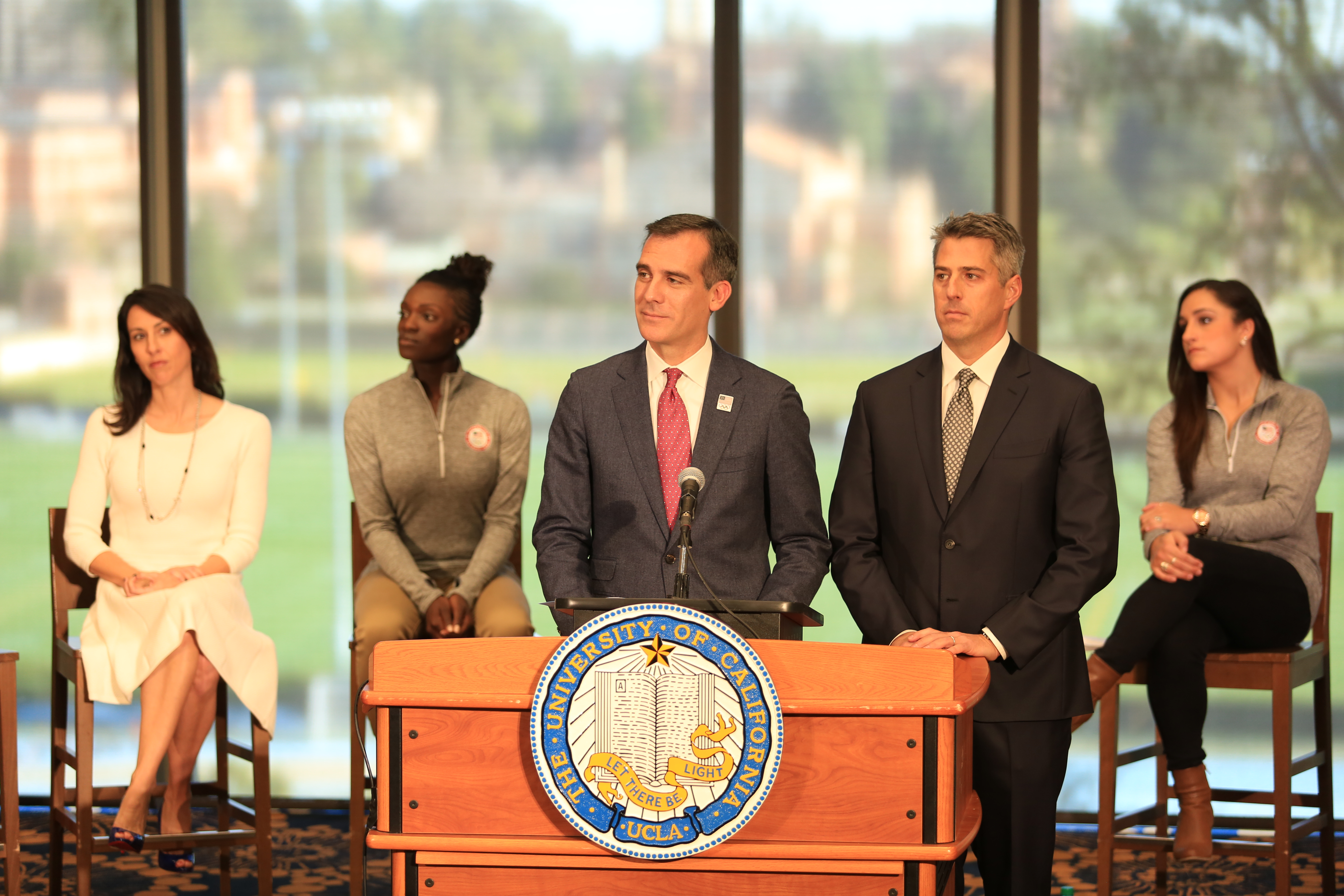 Mayor Garcetti announces UCLA as the Olympic village site for the Los Angeles Olympic bid for the Summer 2024 Olympic Games.